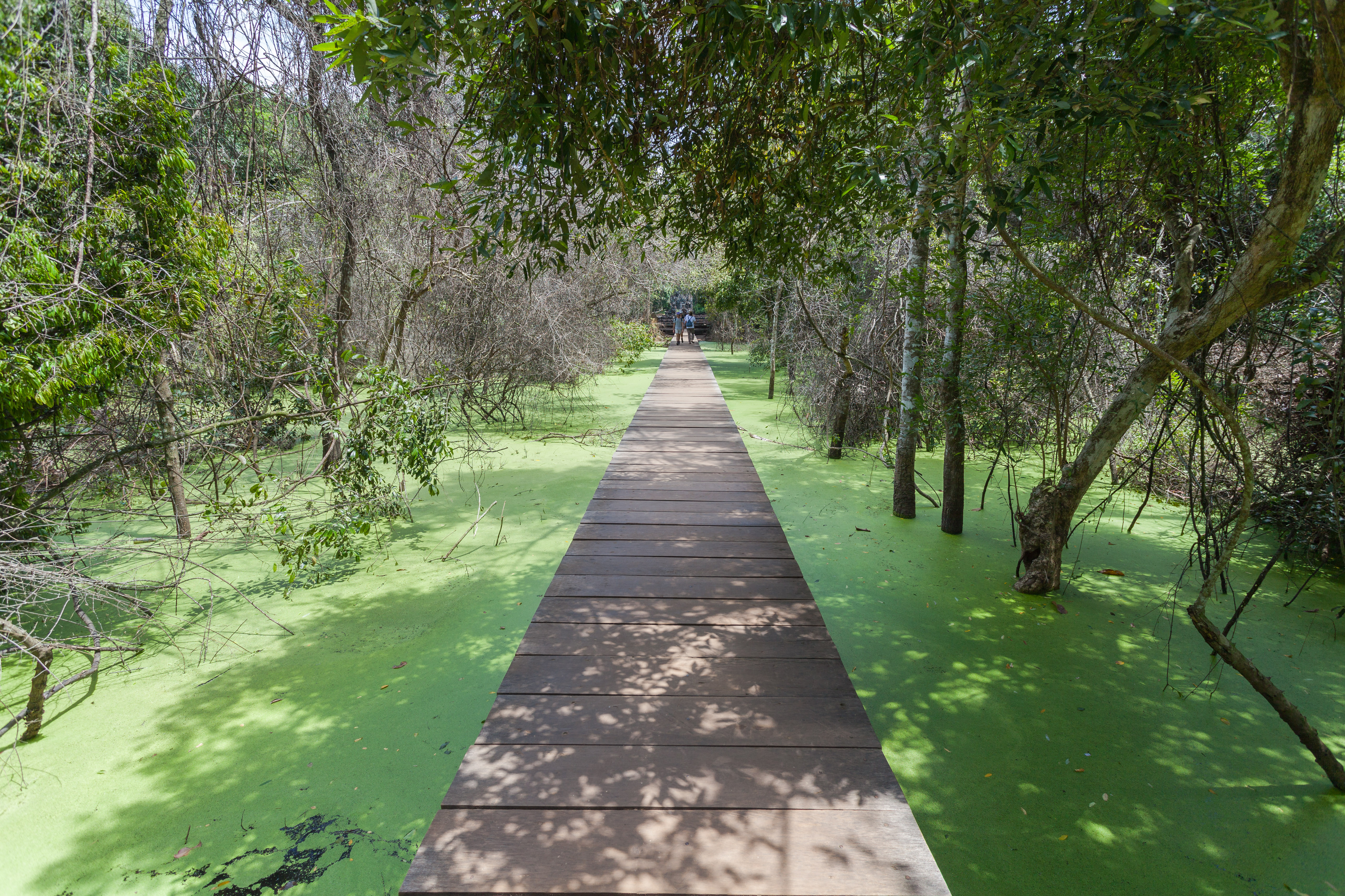 Neak Pean, Angkor, Cambodia